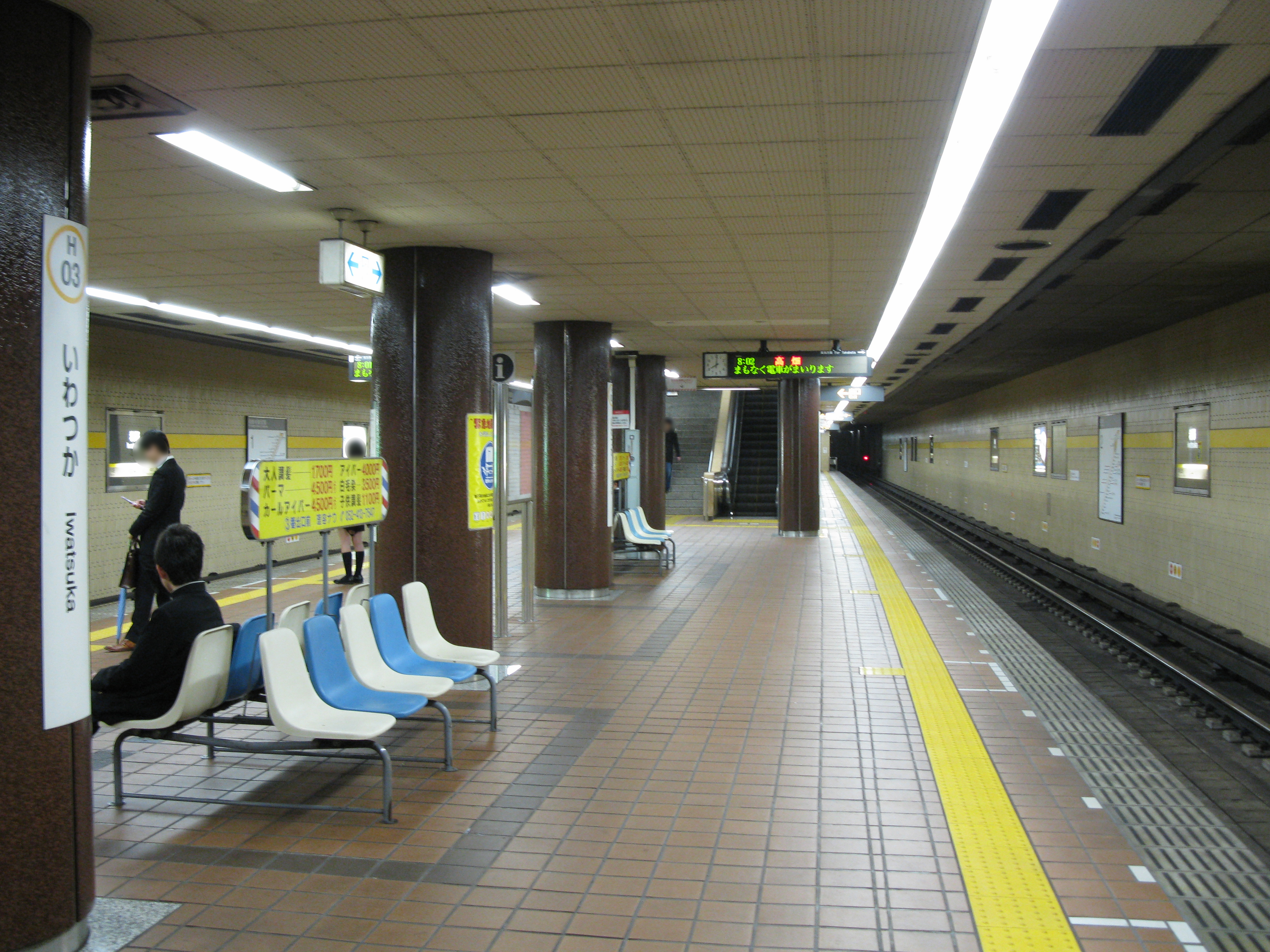 Iwatsuka Station platform (Nagoya Municipal Subway Higashiyama Line)